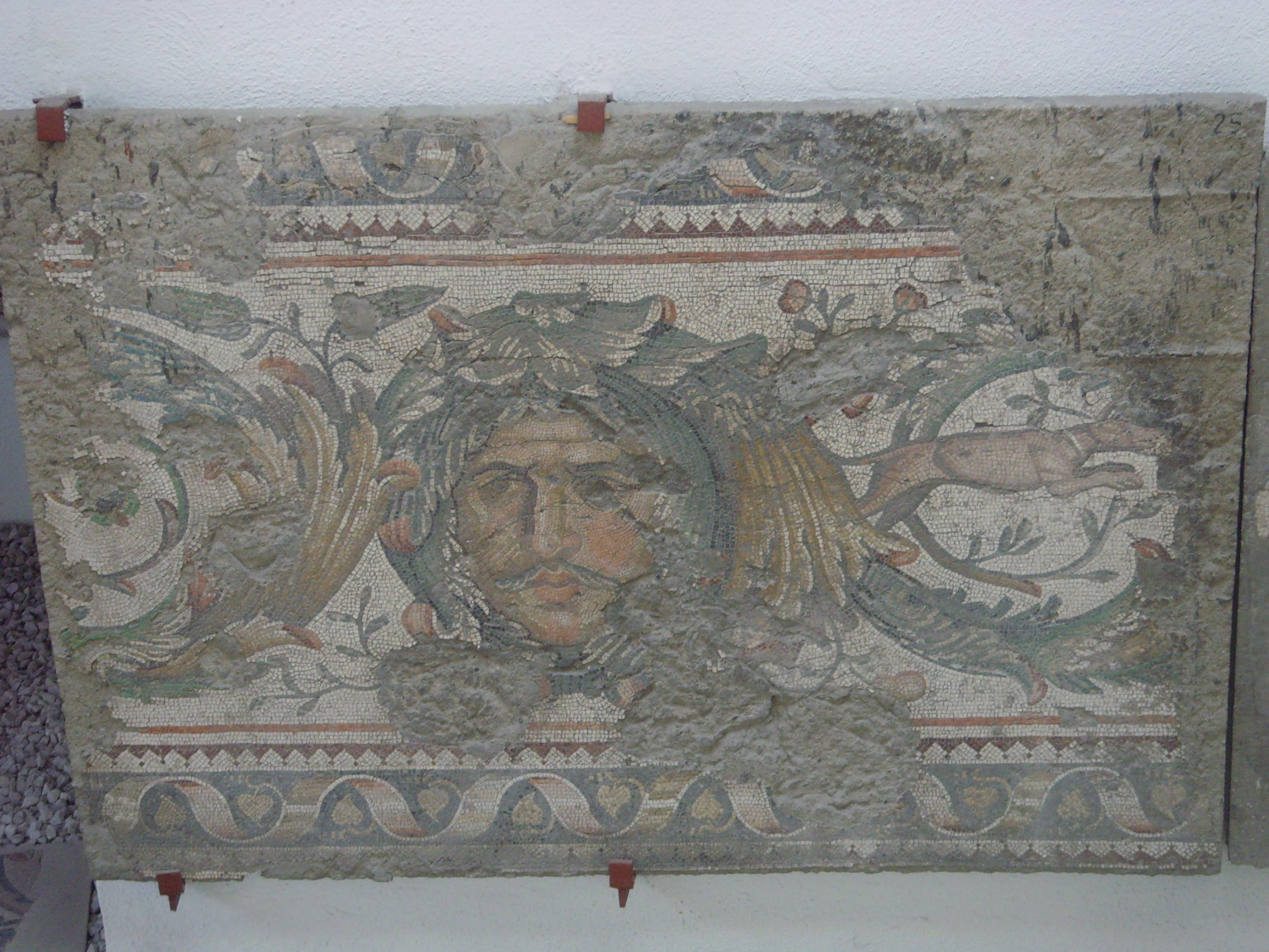 Fragment of mosaic frame at the Great Palace Mosaic Museum